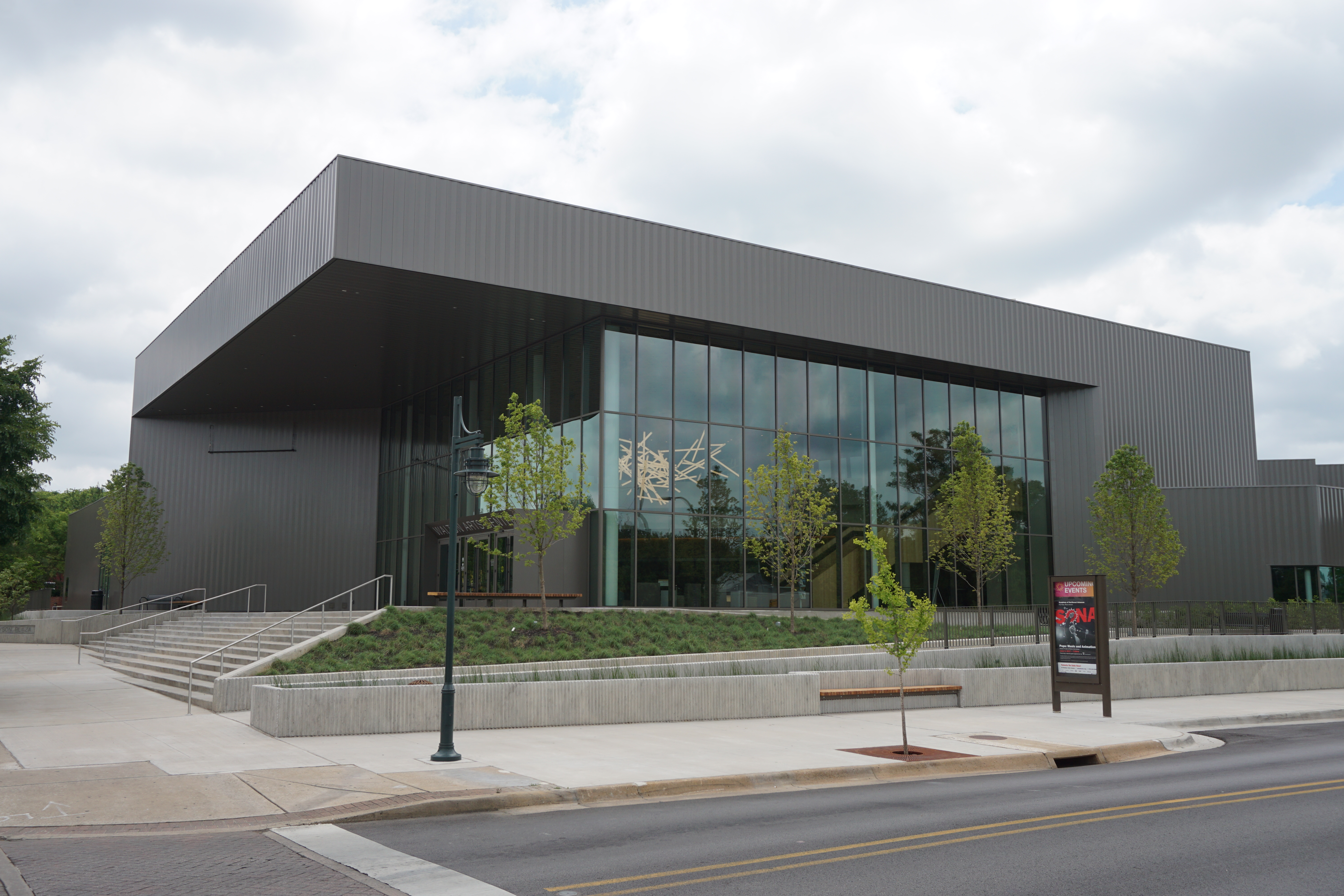 The Walton Arts Center in Fayetteville, Arkansas (United States).